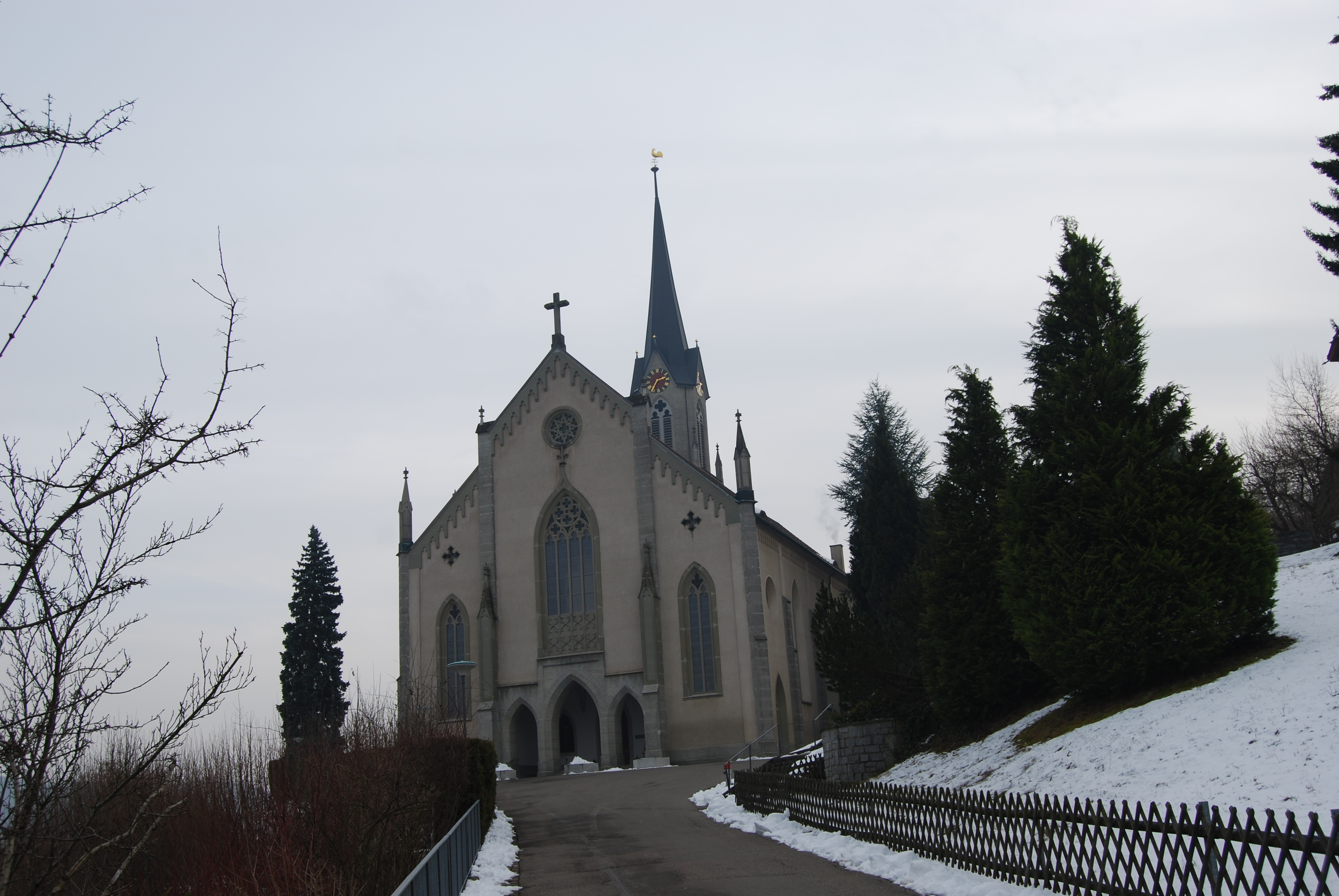 Church of Villmergen, canton of Aargau, SwitzerlandEsperanto: Preĝejo de Villmergen, Kantono Argovio, Svislando